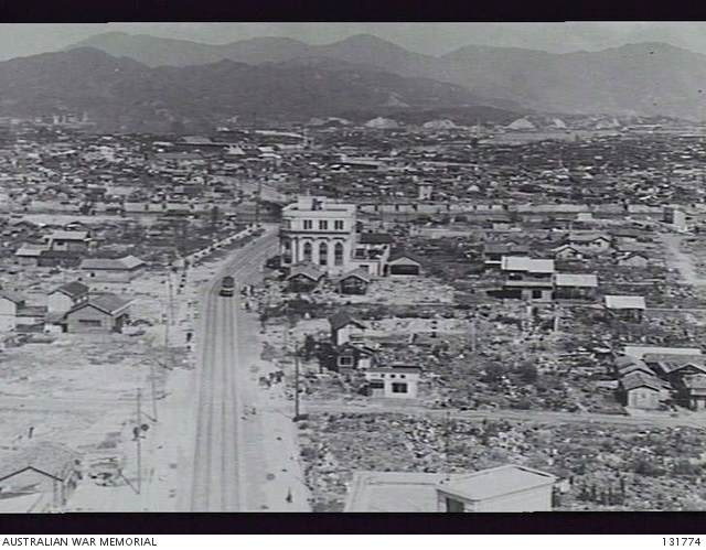 LOOKING SOUTH OF THE CITY, SHOWING THE REBUILDING AND CLEARING THAT HAS BEEN CARRIED OUT ONE YEAR AFTER THE ATOM BOMB WAS DROPPED, FROM THE TOP OF THE NEWSPAPER BUILDING, WHICH WAS ONE OF TWO LARGE BUILDINGS LEFT STANDING AFTER THE BOMB WAS DROPPED.